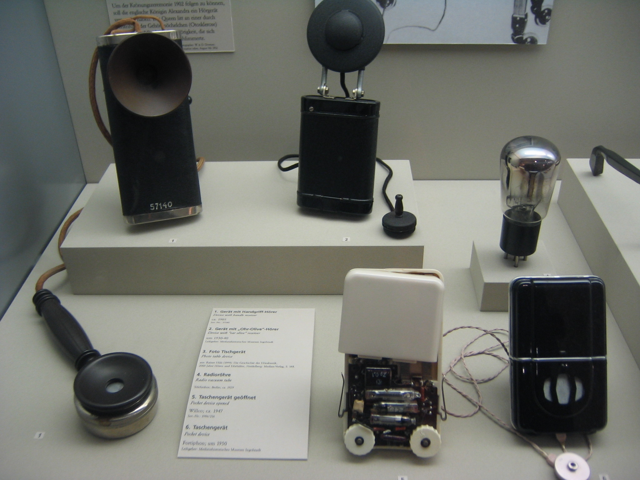 Early 20th century German hearing aids designed with parts similar to telephone receivers. The hearing aids displayed date from approximately 1920 to 1950. Museum of Medicine, Berlin, Germany.